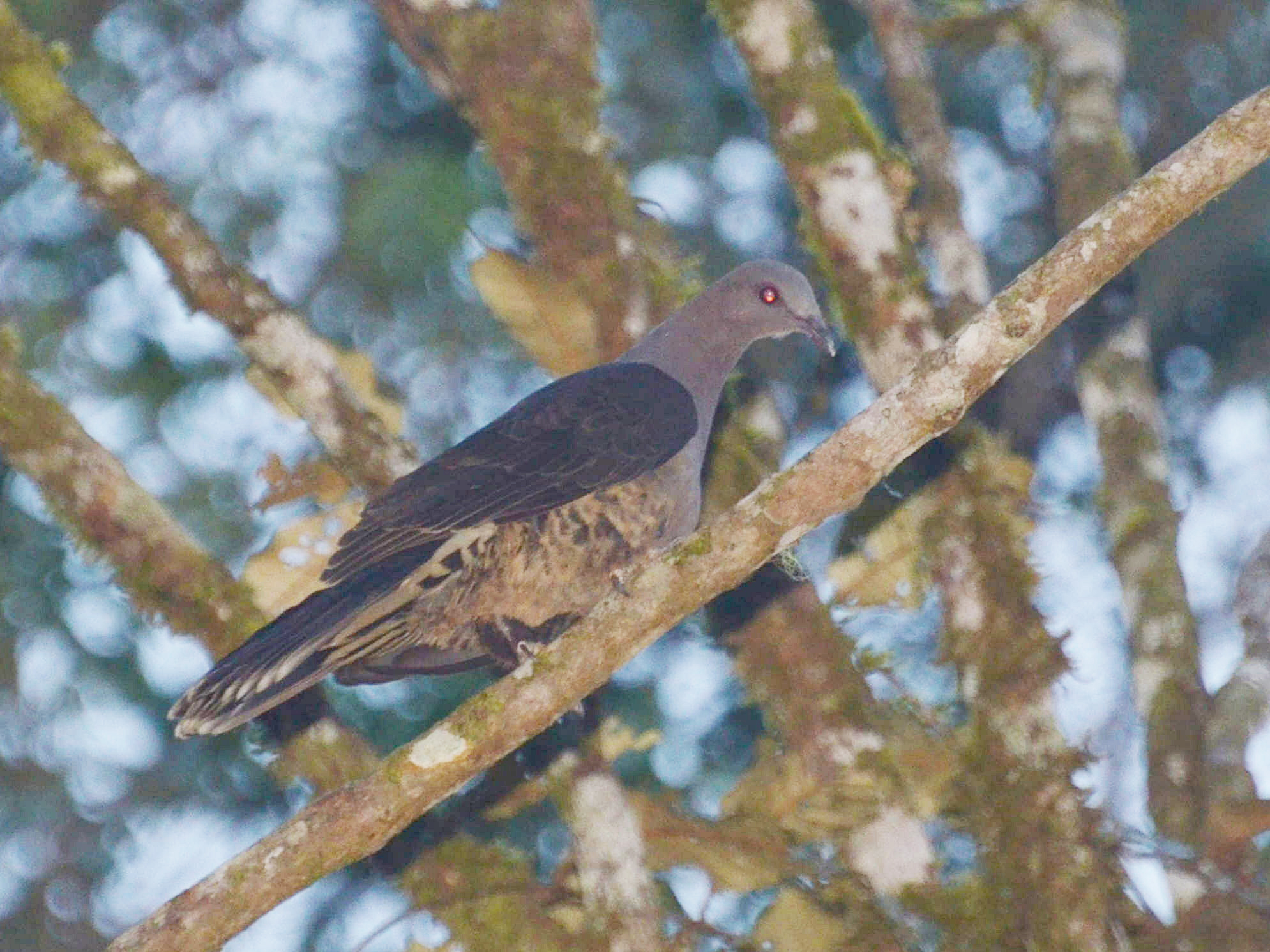 Sombre pigeon (Cryptophaps poecilorrhoa) at Mount Ambang Nature Reserve, North SulawesiBahasa Indonesia: Merpati murung (Cryptophaps poecilorrhoa) di Cagar Alam Gunung Ambang, Sulawesi Utara